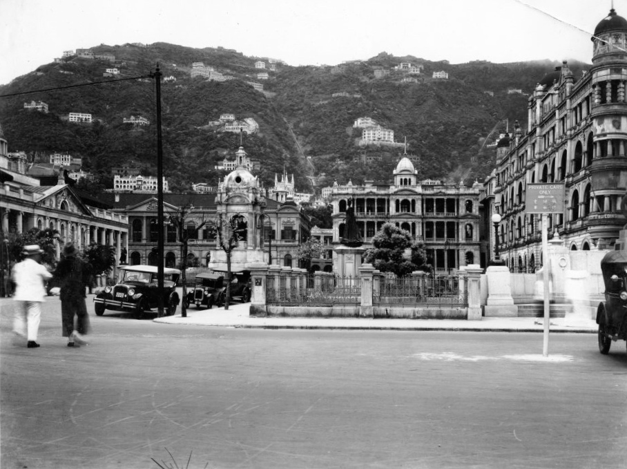 PictionID:38277728 - Catalog:AL-135A 285 - Filename:AL-135A 285.tif - This image is from a photo album donated to the Museum by JL Highfill, who was a photographer for the Navy before and during the Second World War-----------PLEASE TAG this image with any information you know about it, so that we can permanently store this data with the original image file in our Digital Asset Management System.-----------------SOURCE INSTITUTION: San Diego Air and Space Museum Archive